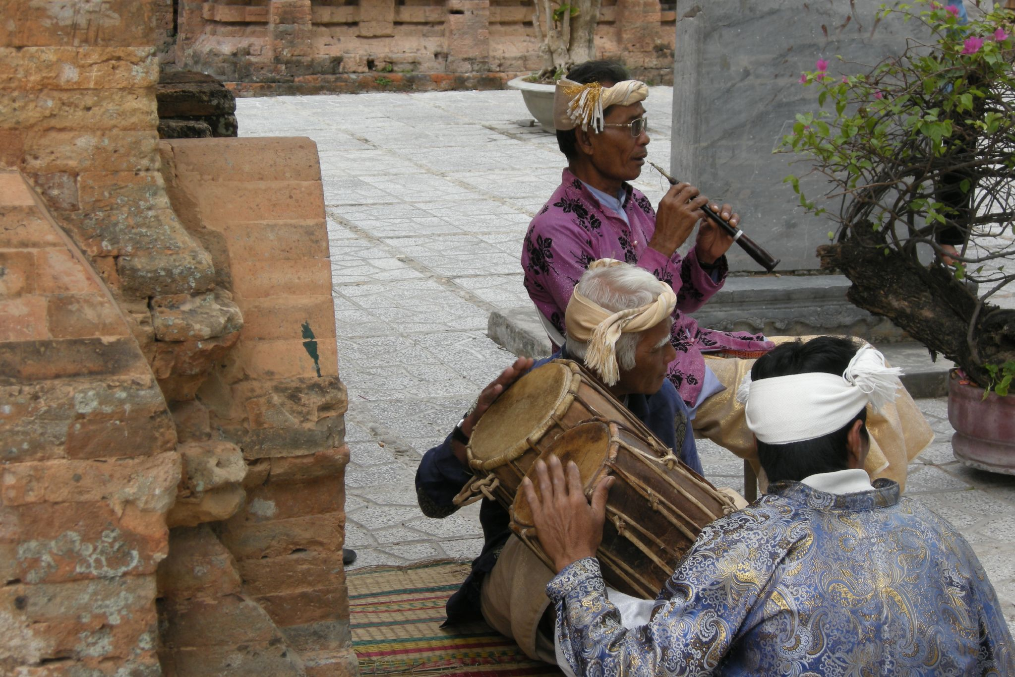 Cham musicians and musical instruments.